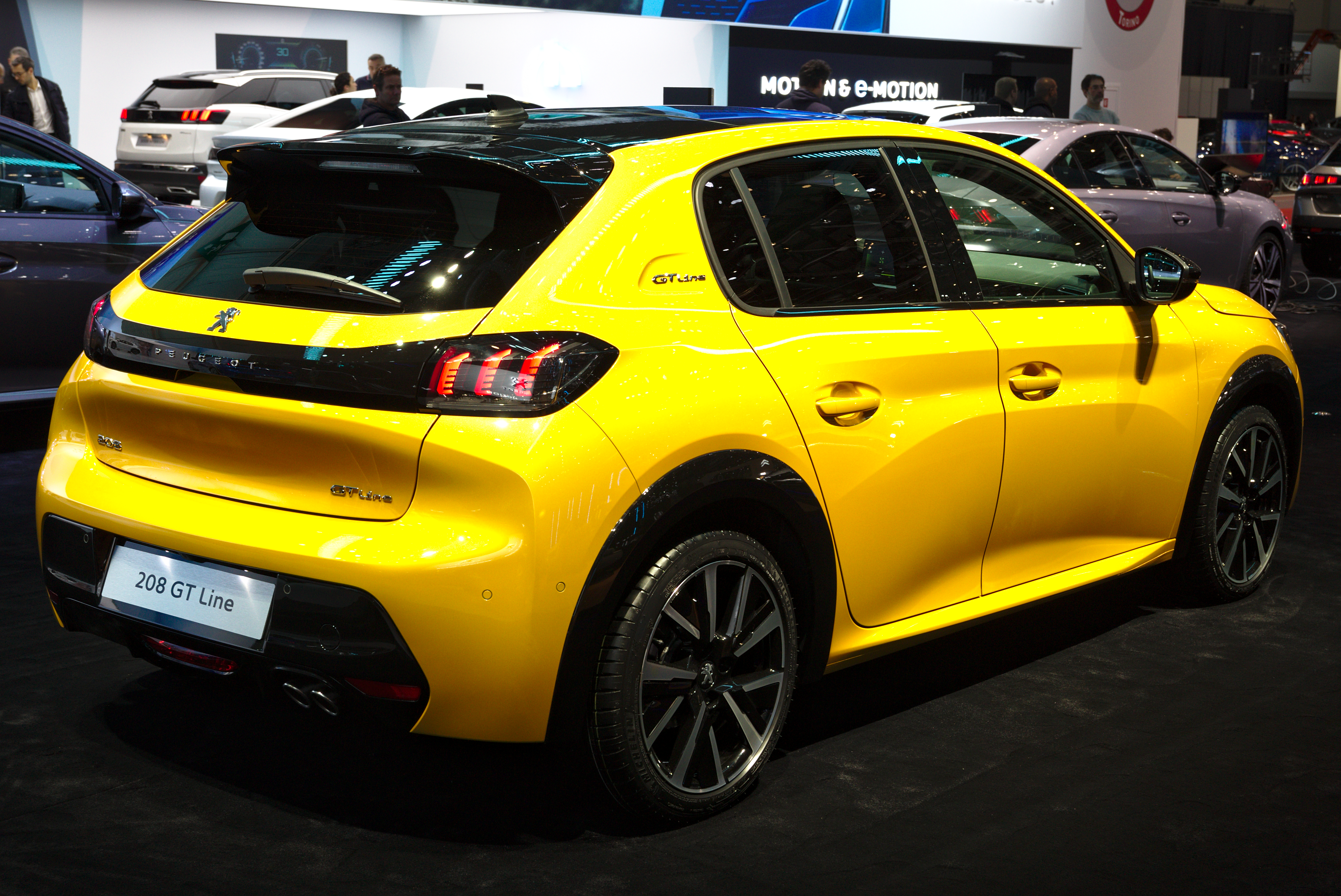 Peugeot 208 GT-Line at Geneva Motor Show 2019